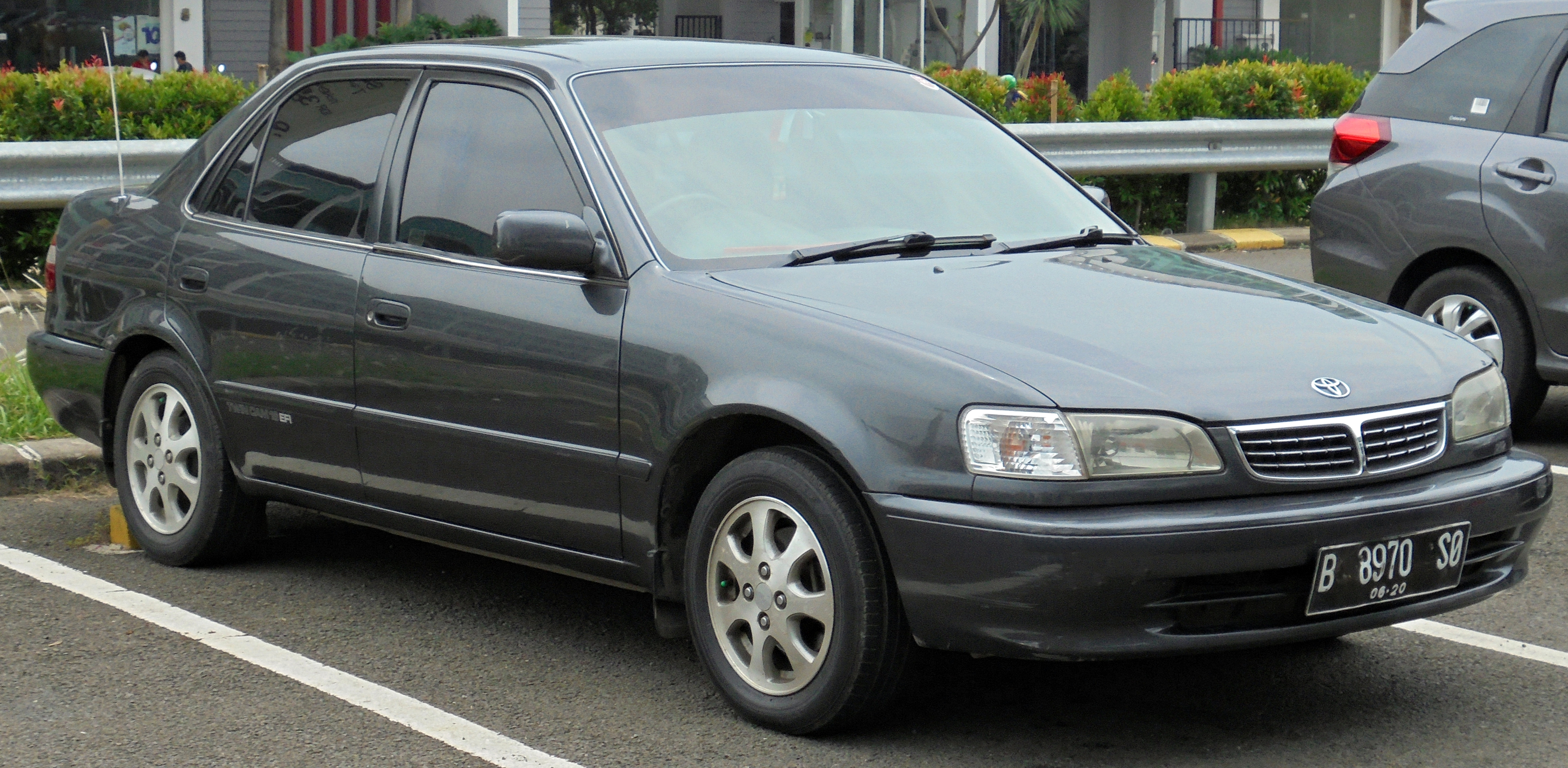 2000 Toyota Corolla 1.8 SE-G sedan (AE112) photographed in South Tangerang, Banten, Indonesia.